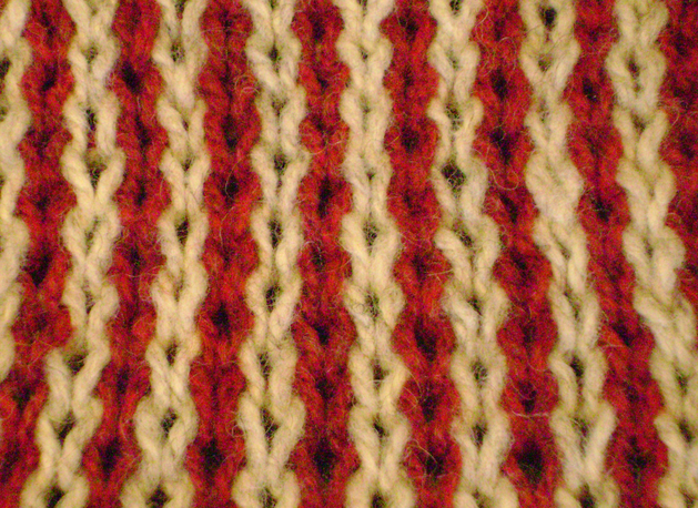 Illustrates the definition of a knitting wale, a set of stitches in which each stitch supports the previous one and is itself suspended from the next. This fabric was made using two colors of hand-spun wool from the same sheep, knit using a slip-stitch double-knitting trick; that's why the alternating red and white wales are half-staggered with respect to one another.